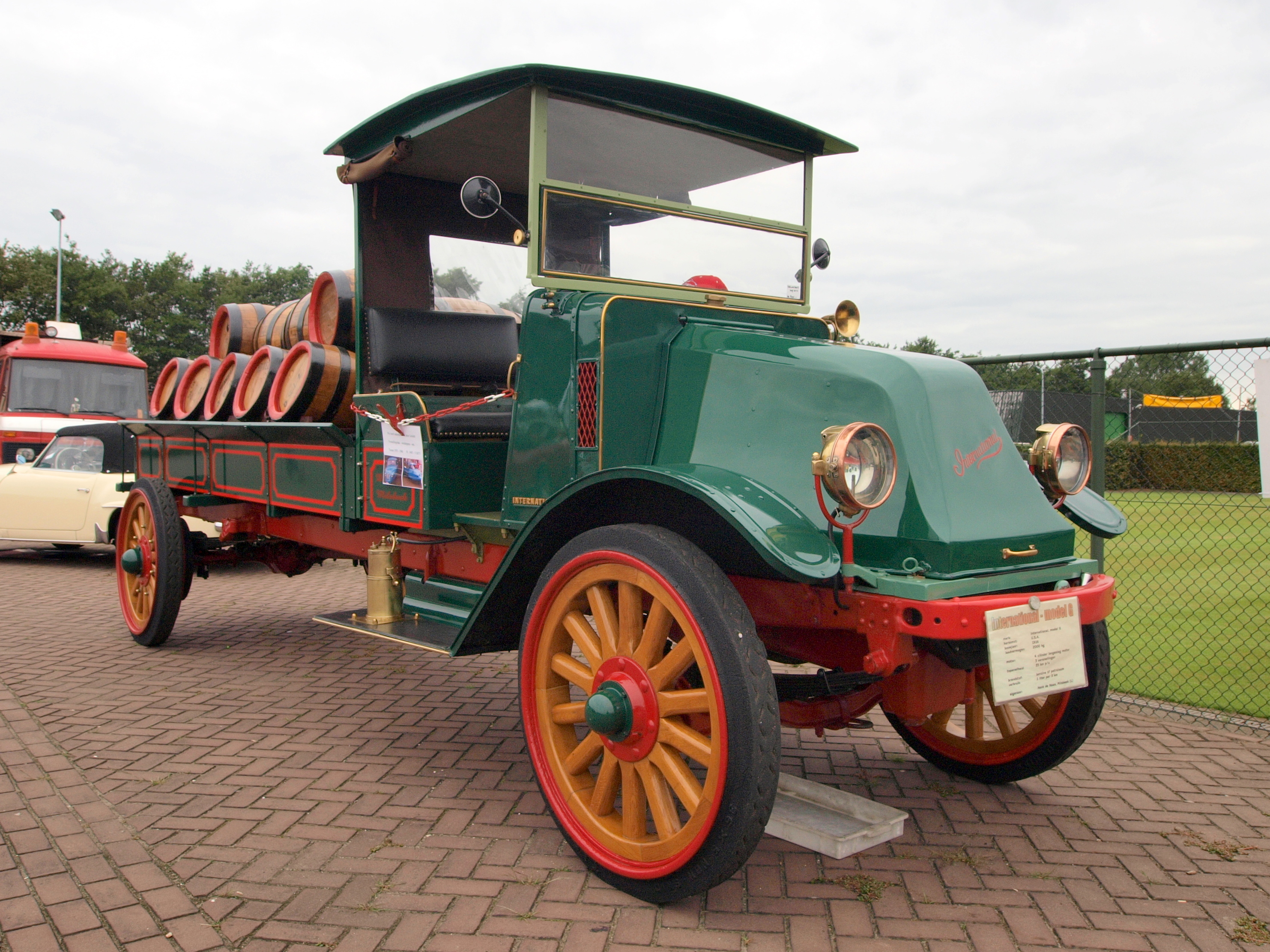 Photographed at the 2010 Autotron Classic car meeting, Rosmalen, The Netherlands. OLYMPUS DIGITAL CAMERA